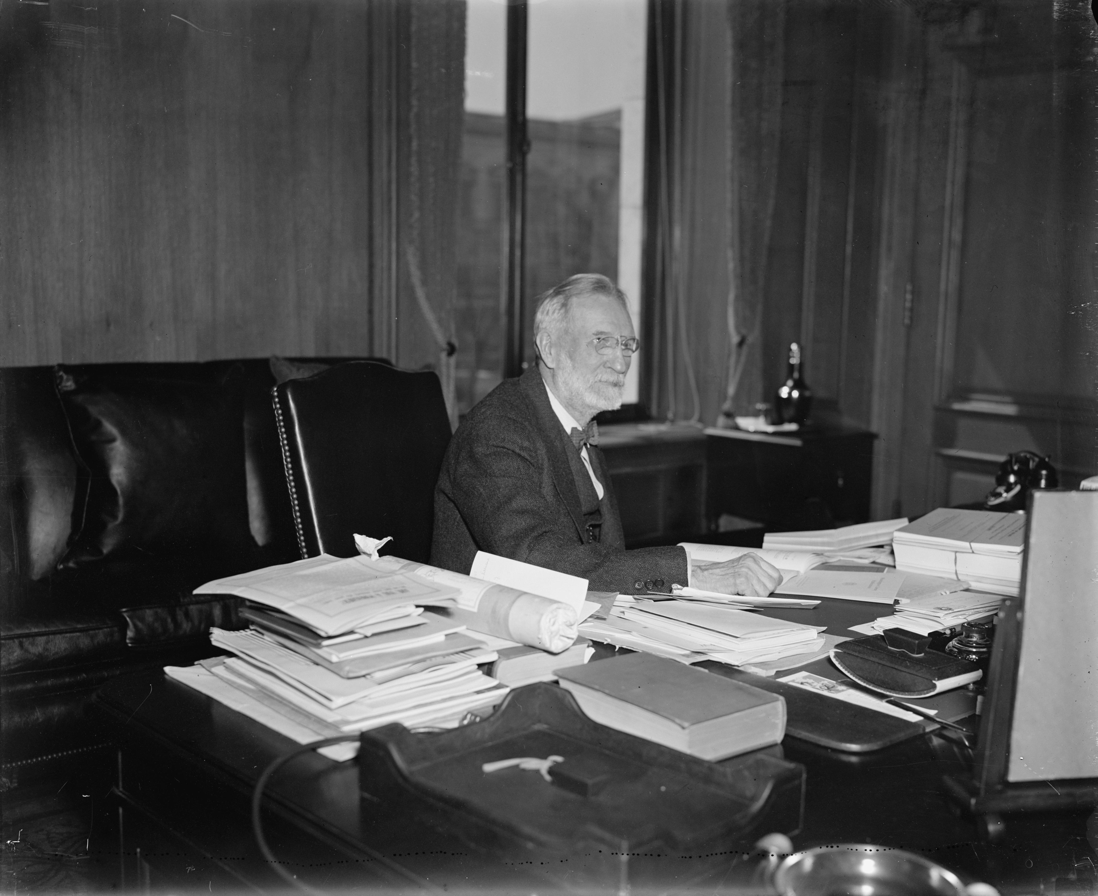 Associate Justice George Sutherland of the United States Supreme Court